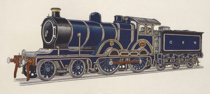 A Great Eastern Railway S46 "Claud Hamilton" class steam locomotive in its original livery, a colour plate by W.J. Stokoe included in W.J.Gordon's book Our Home Railways; How They Began And How They Are Worked vol 1, Frederick Warne & Co Ltd, London, 1910